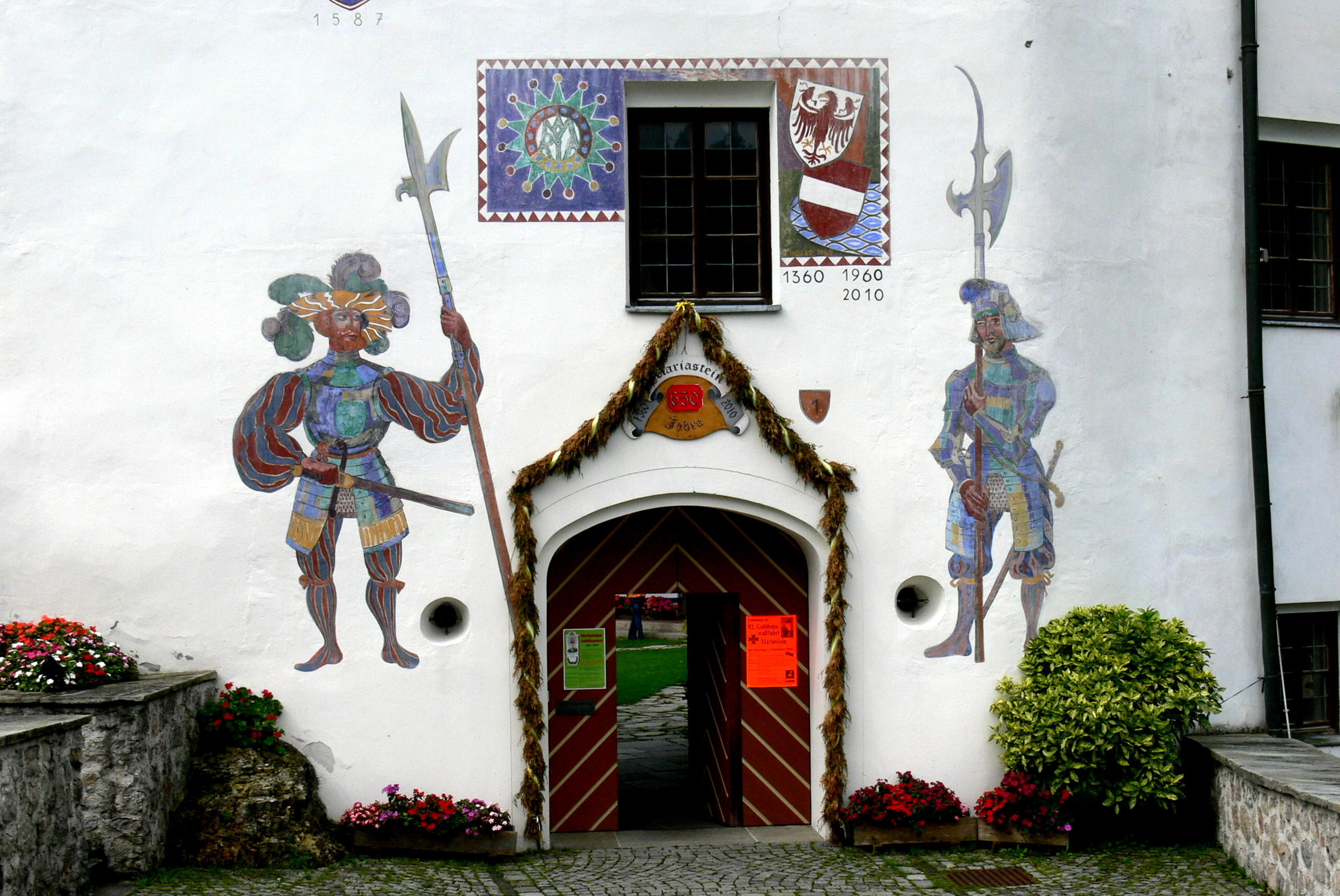 Mariastein ( Tyrol ). Castle gate with fresco of two landsknechts ( 1959 ) by Oswin Hofer.